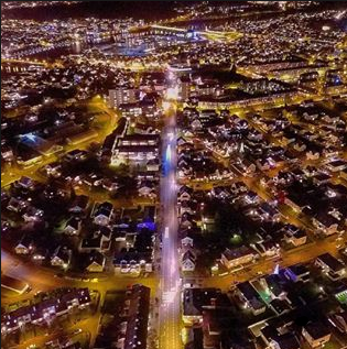 Kristiansand